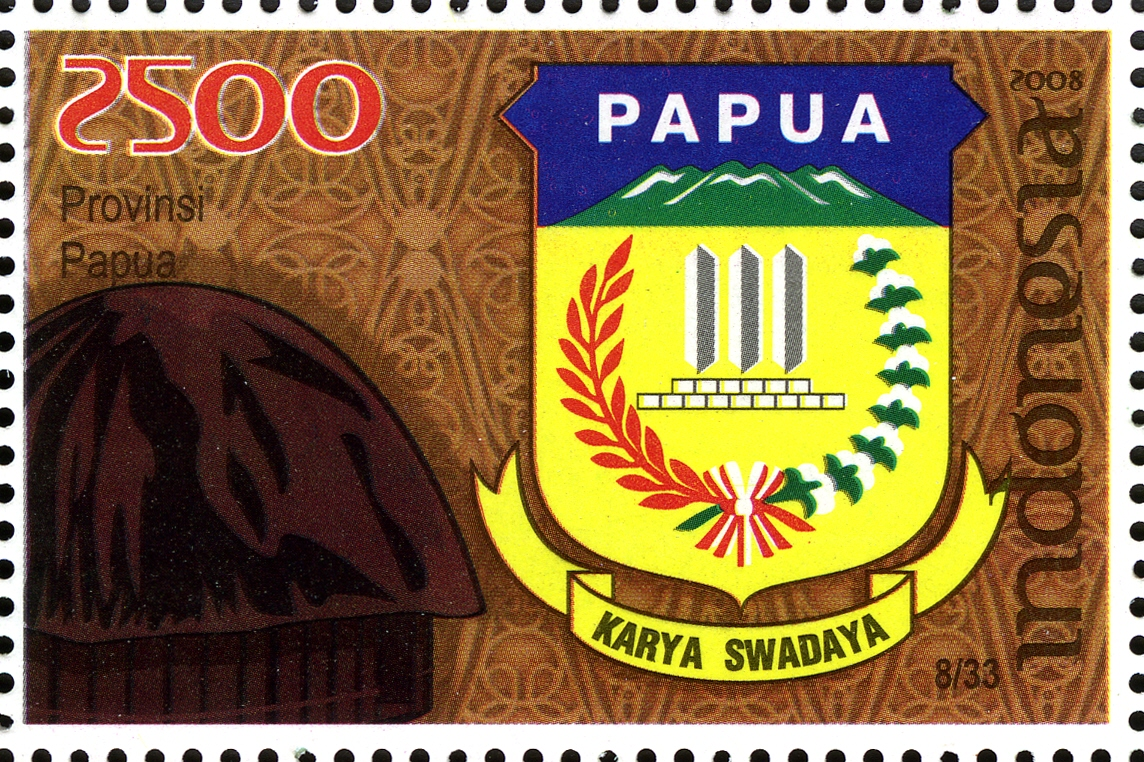 Stamps of Indonesia